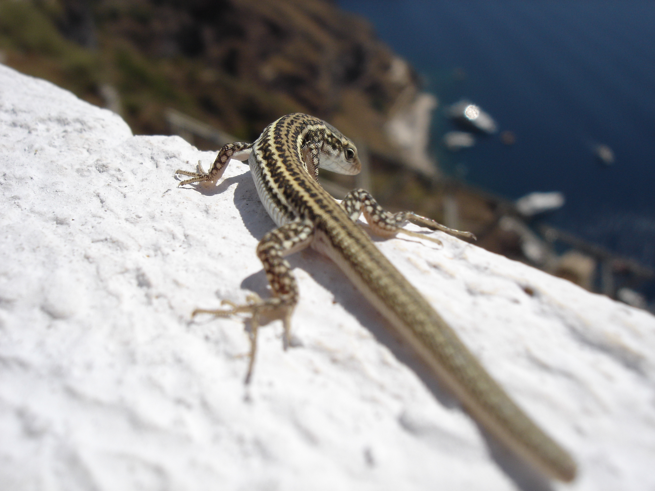 Podarcis is a genus of lizards commonly known as wall lizards, this picture was taken on Fira Satorini.